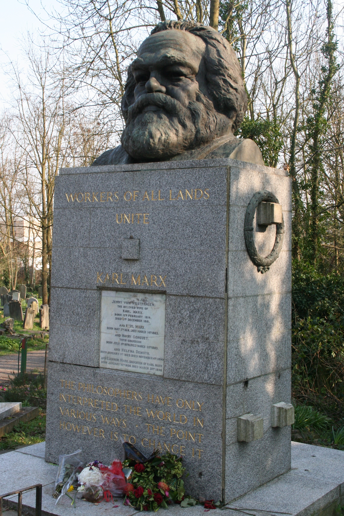 Highgate Cemetery, Karl Marx's grave, Highgate, London